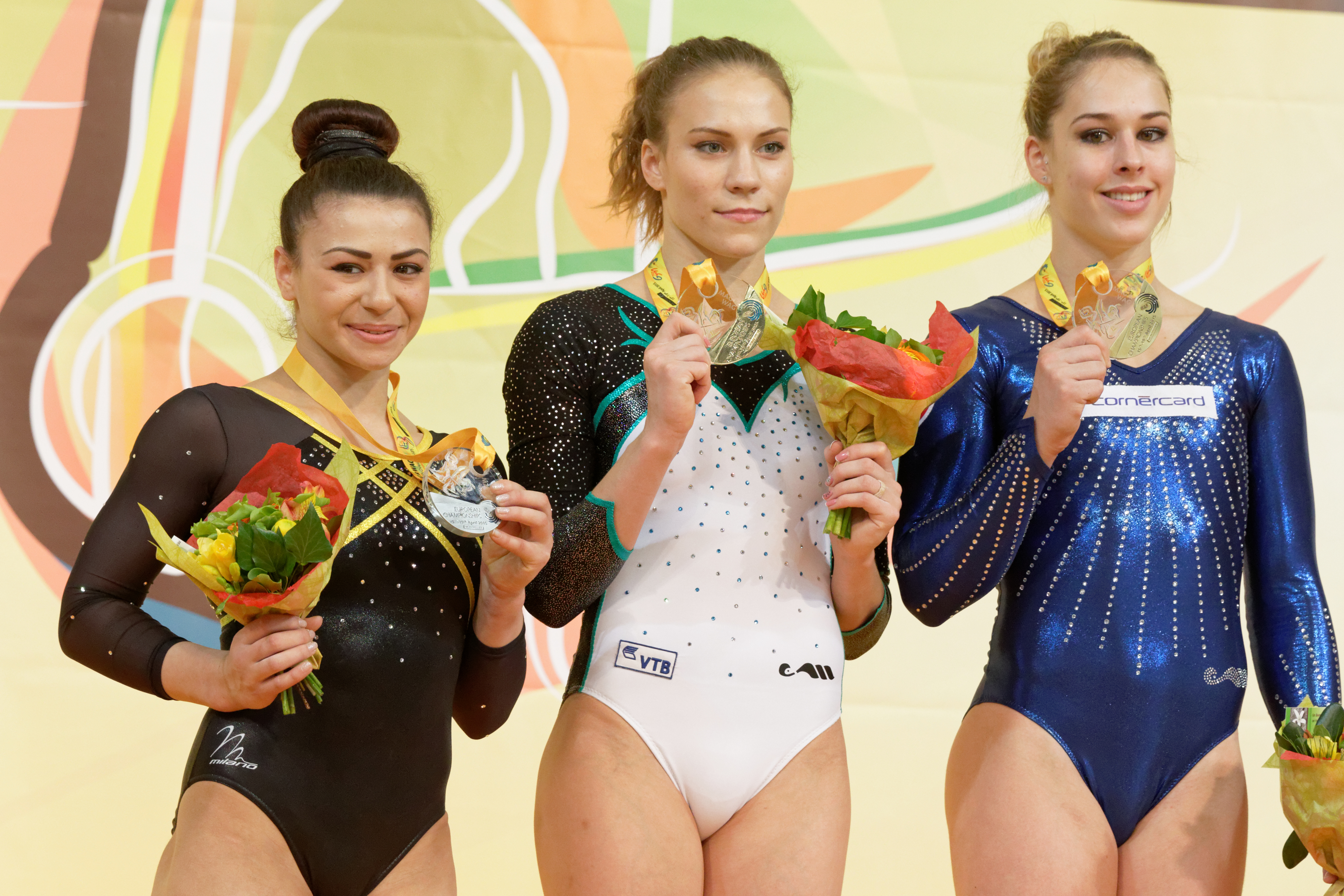 2015 European Artistic Gymnastics Championships.